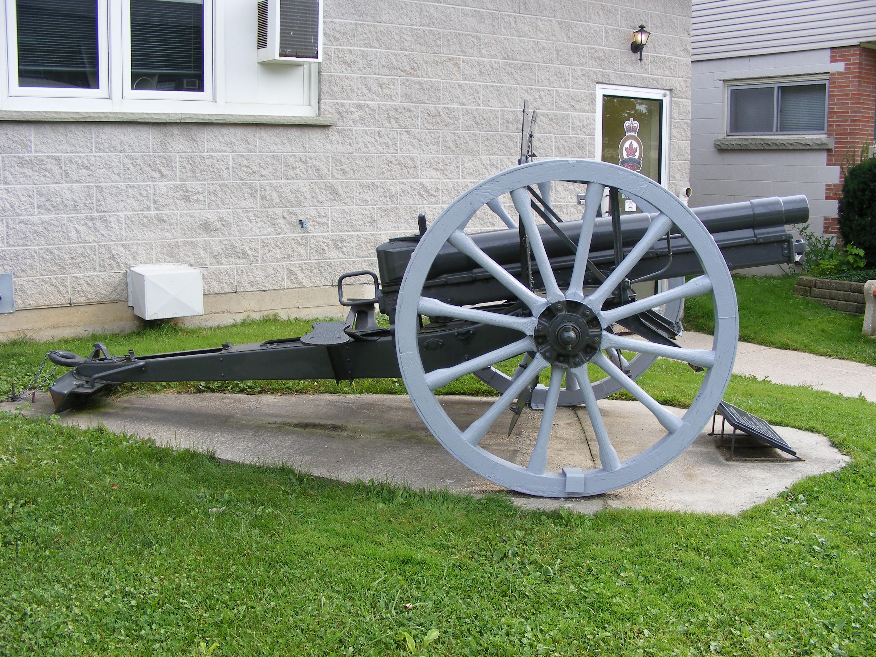 German 7.7 cm FK 96 n.A field gun. used during World War I, displayed as a monument in front of Royal Canadian Legion building in Mount Forest, Ontario.